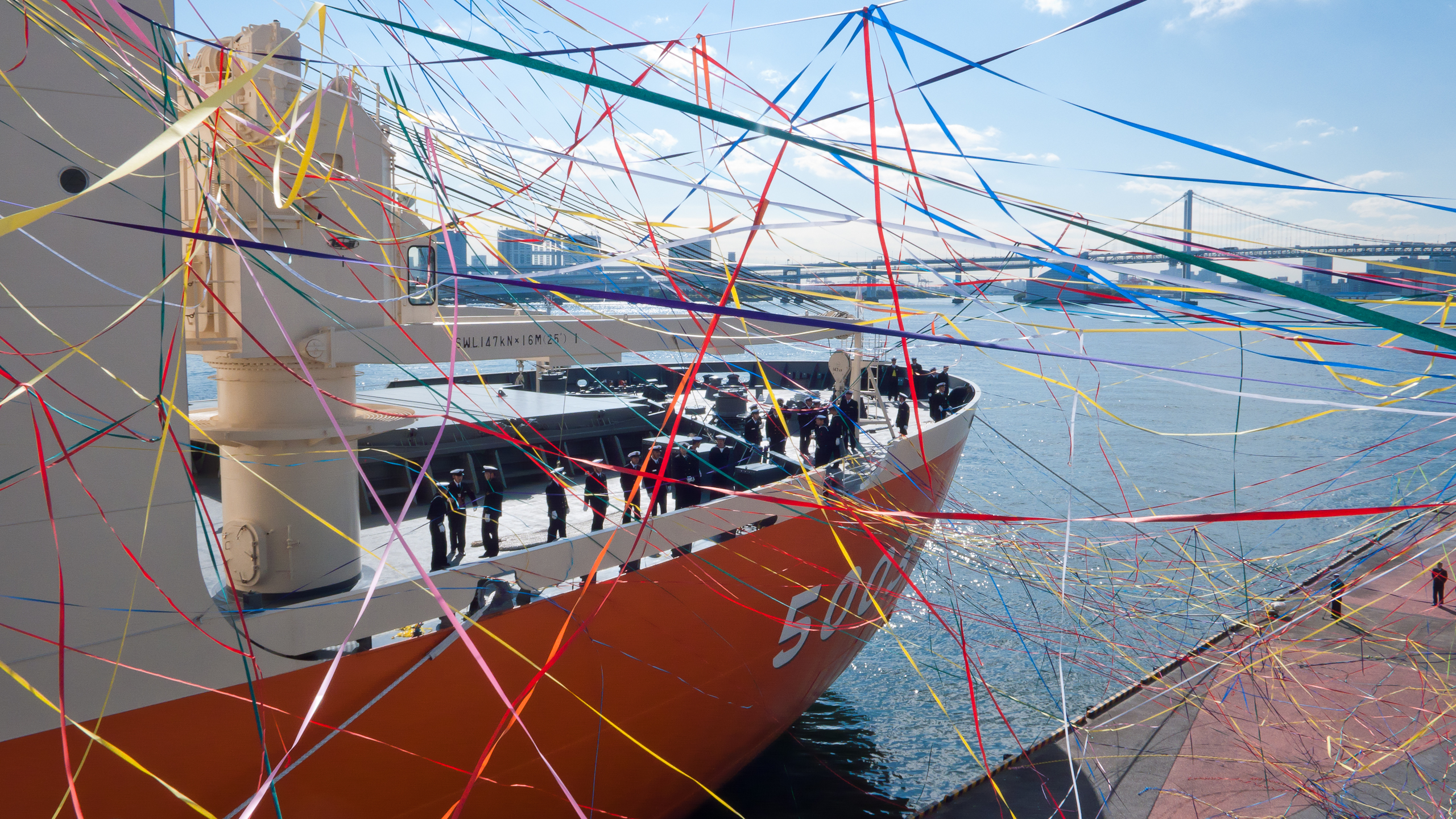 Japanese icebreaker Shirase (AGB5003) leaving Harumi, Port of Tokyo.